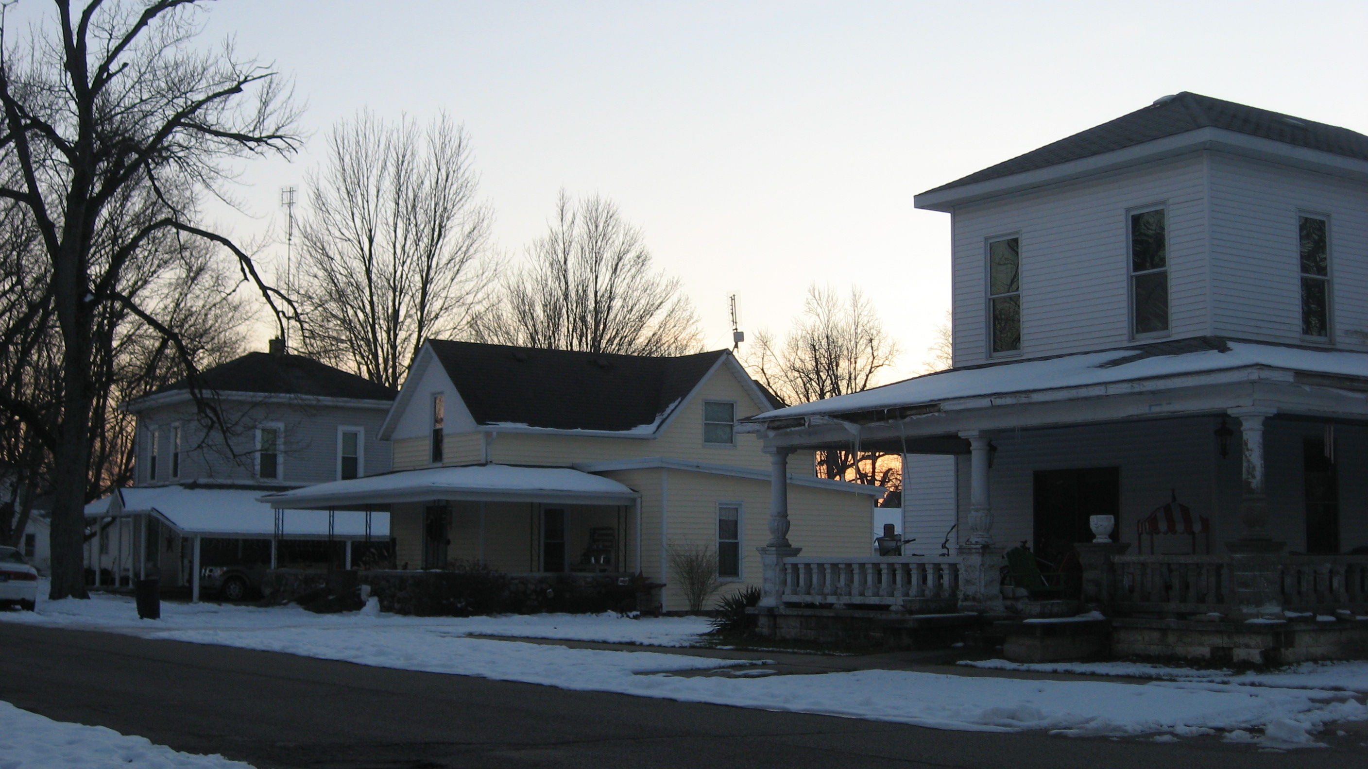 Houses on Church Street in Roann, Indiana, United States. From right to left, they are: 139 E. Pike Street, built 1885 320 S. Church Street, built 1900 330 S. Church Street, built 1890 All three are part of the Roann Historic District, a historic district that is listed on the National Register of Historic Places.